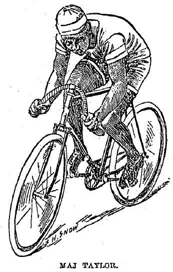 Major Taylor in July 1897